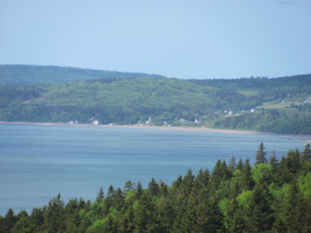 A view of the village of Spencer's Island, Nova Scotia from Route 209 near Fraserville along the Parrsboro Shore.